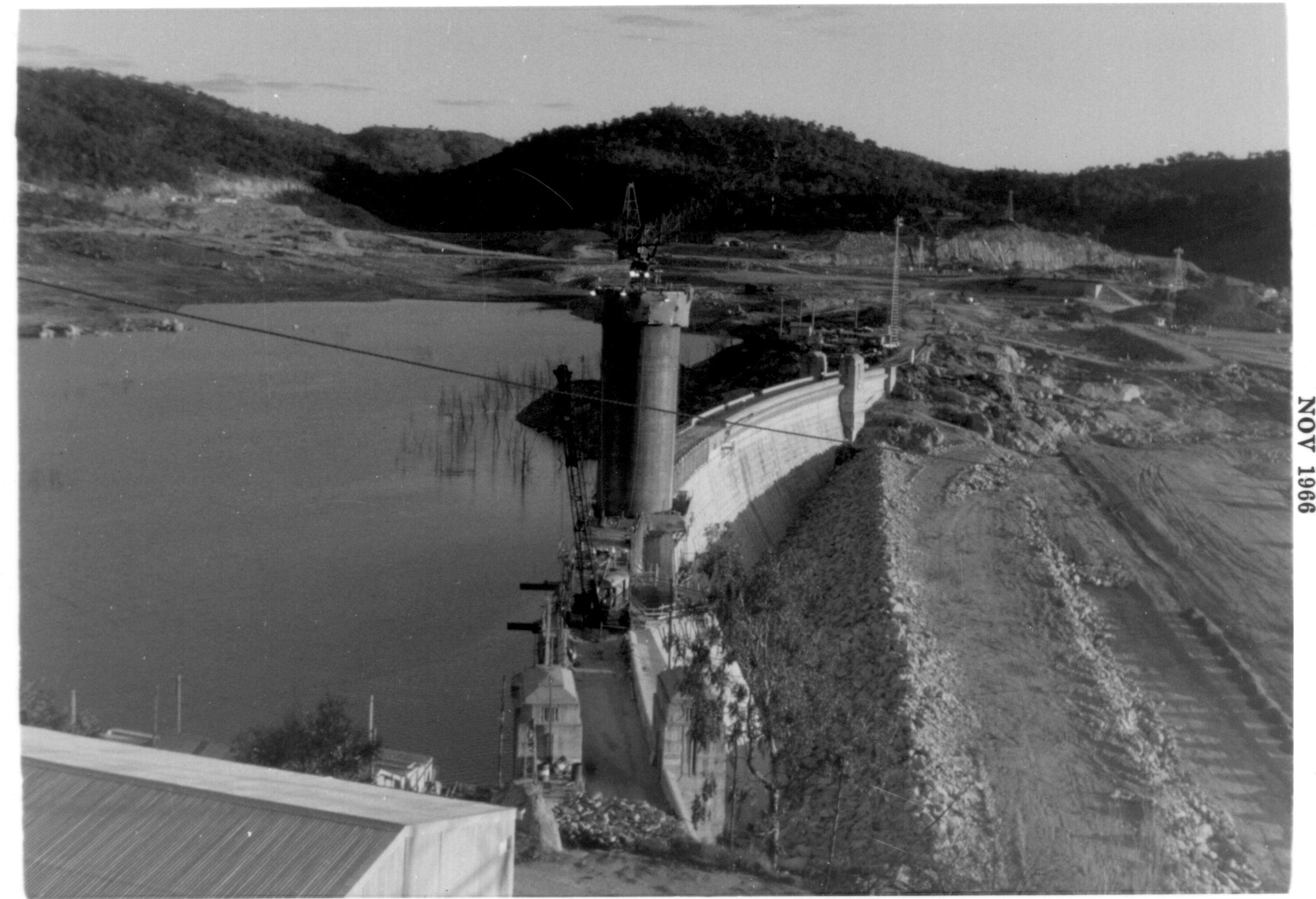 Wyangala Dam upgrade and enlargement during the 1960s, with original dam wall visible